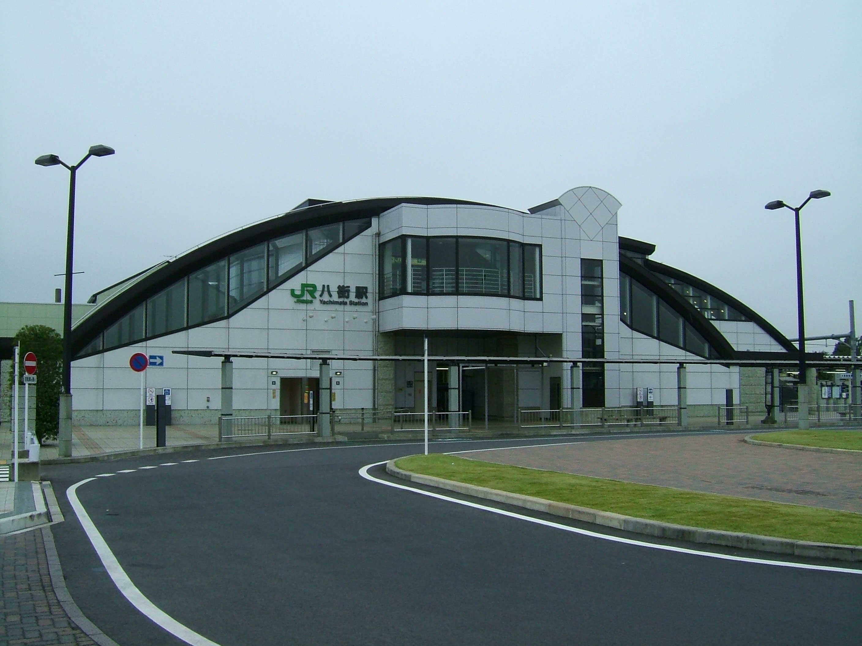 Yachimata Station north entrance (East Japan Railway Sōbu Main Line)